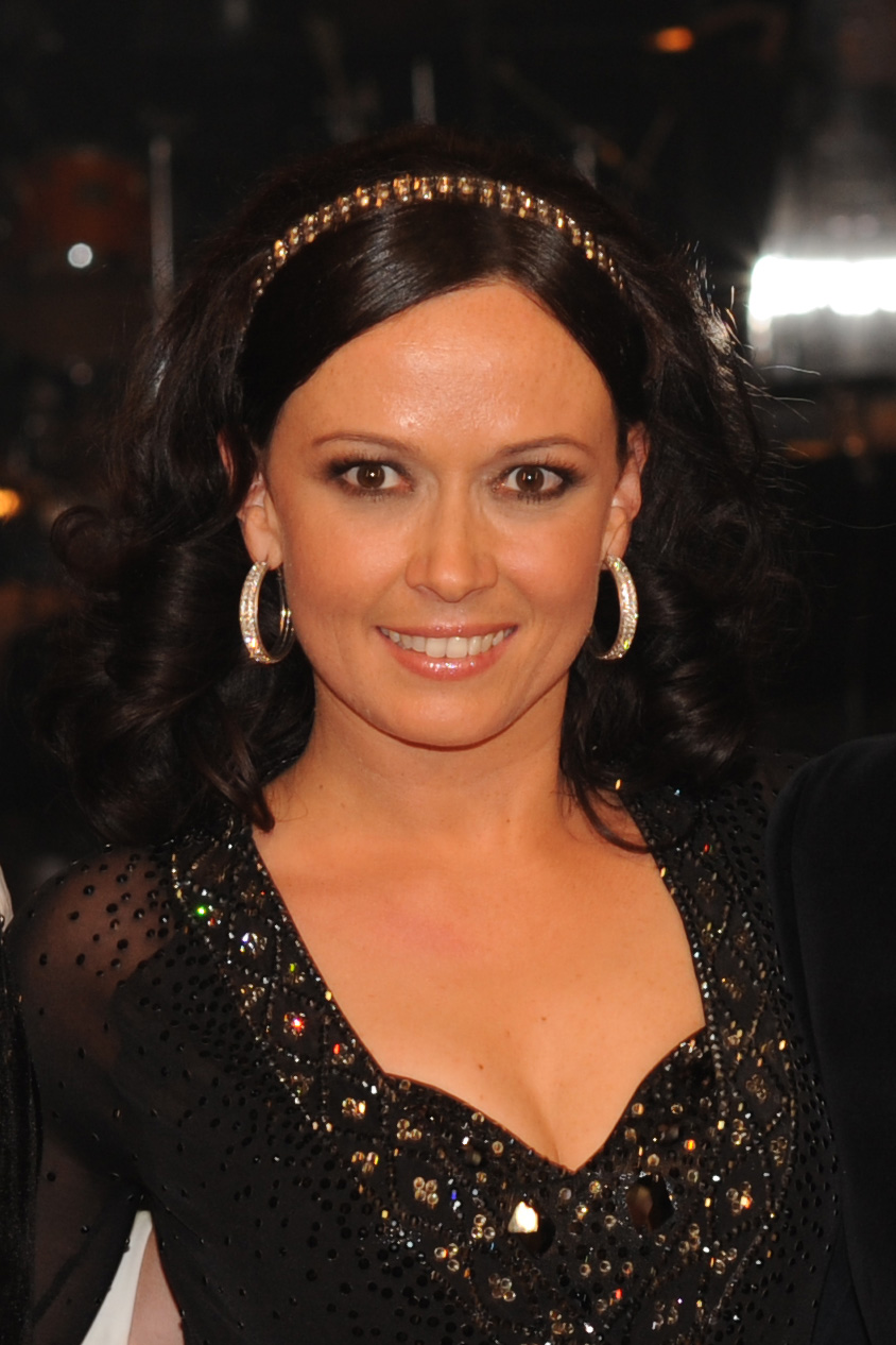 "Dancing Stars" am 5. April 2013 The making of this work was supported by Wikimedia Austria. For other files made with the support of Wikimedia Austria, please see the category Supported by Wikimedia Österreich. Babsi Koitz-Baumann